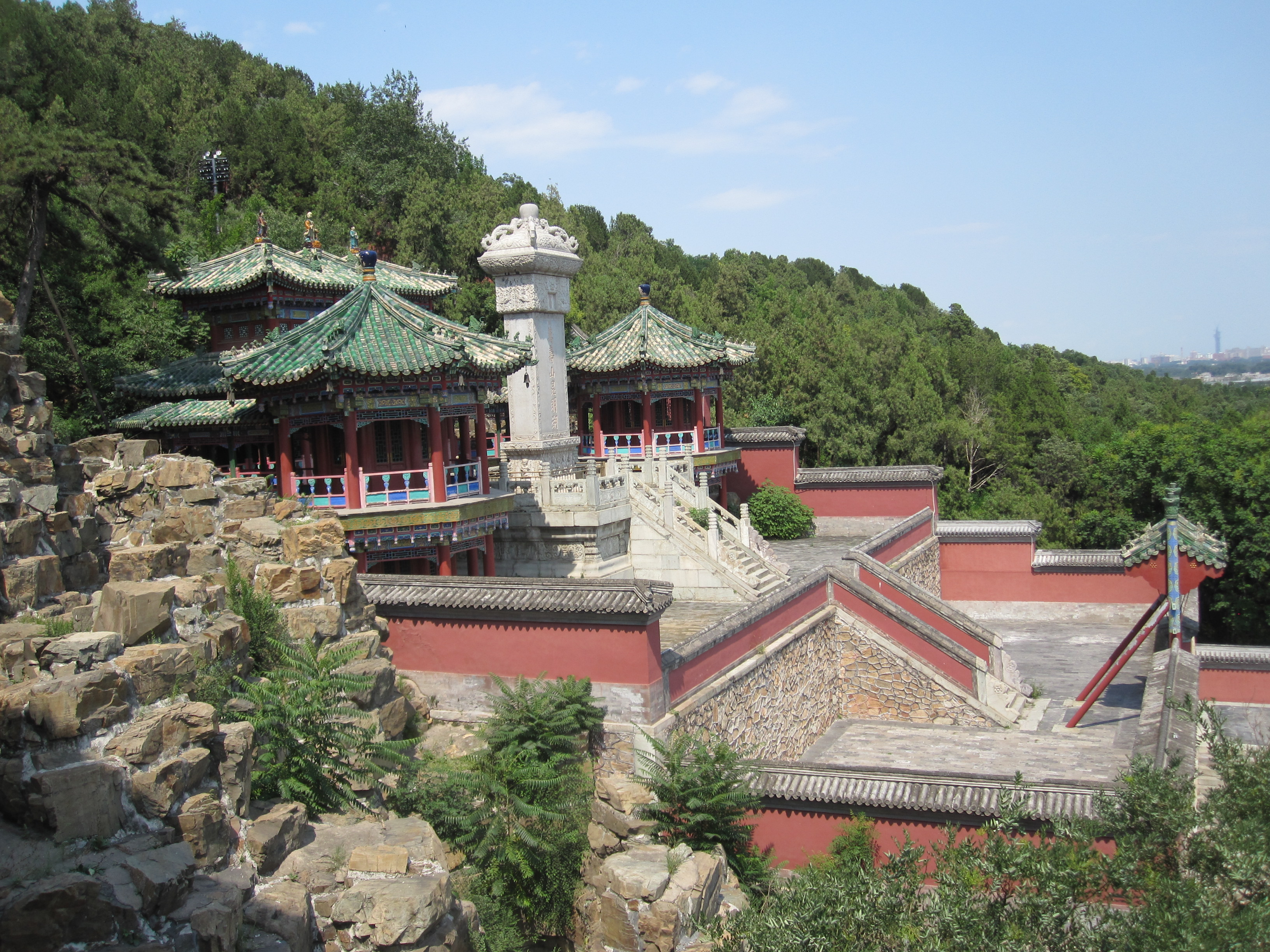 Zhuanlunzang in the Summer Palace (Beijing, China).